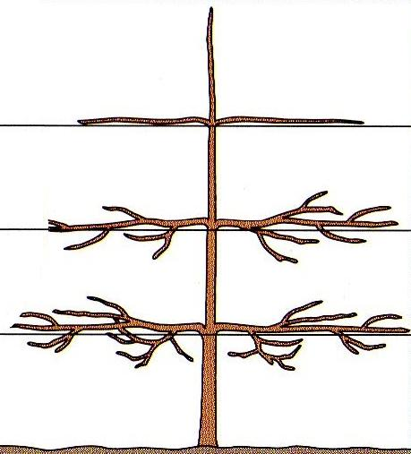 Please somebody write the name in english!